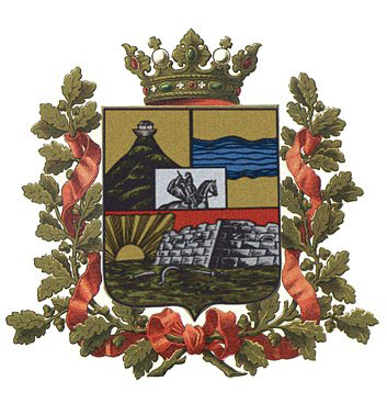 Zaqatala coat of Arms